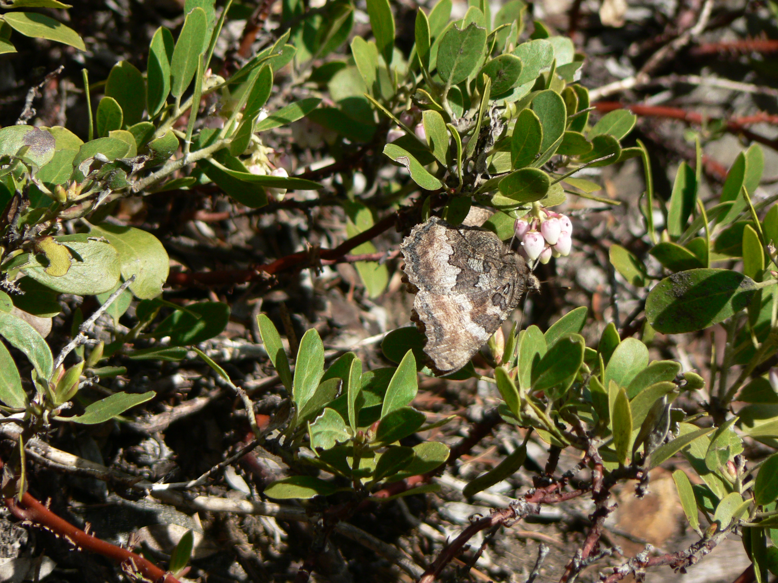 California Tortoiseshel